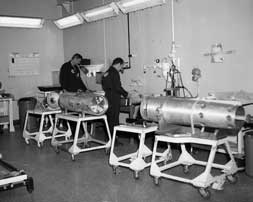 Technicians at DOE’s Pantex Plant near Amarillo, Texas, perform final assembly on a nuclear warhead. Employing about 2,700 workers, Pantex performs nuclear weapons assembly, disassembly, testing, quality assurance, repair, retirement, and disposal. President Reagan’s defense buildup in the early and mid-1980s resulted in increased production levels at Pantex and throughout DOE’s nuclear weapons complex.